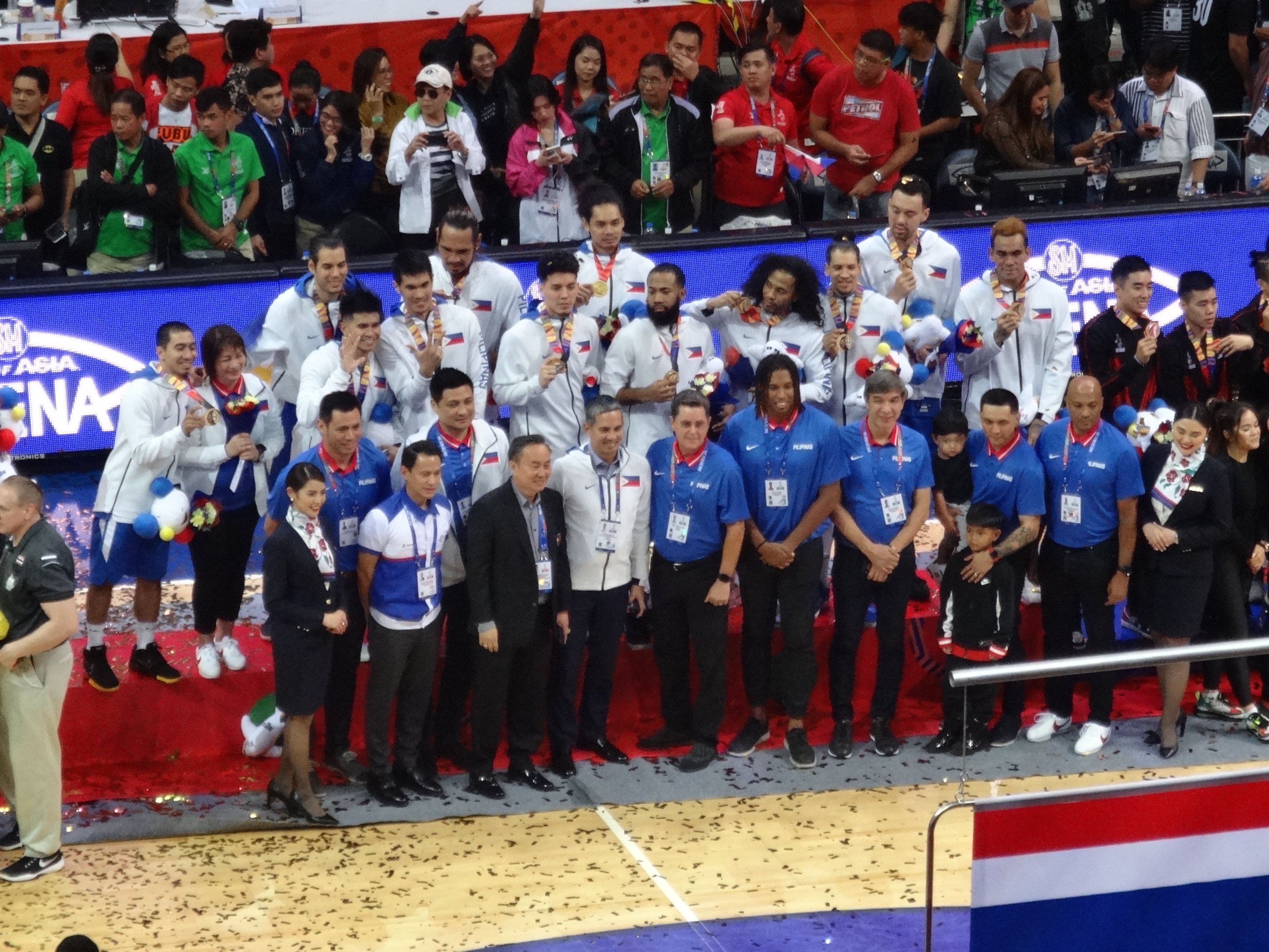 Team Philippines wins gold at SEA Games 2019 Men's Basketball at the SM Mall of Asia Arena in Pasay